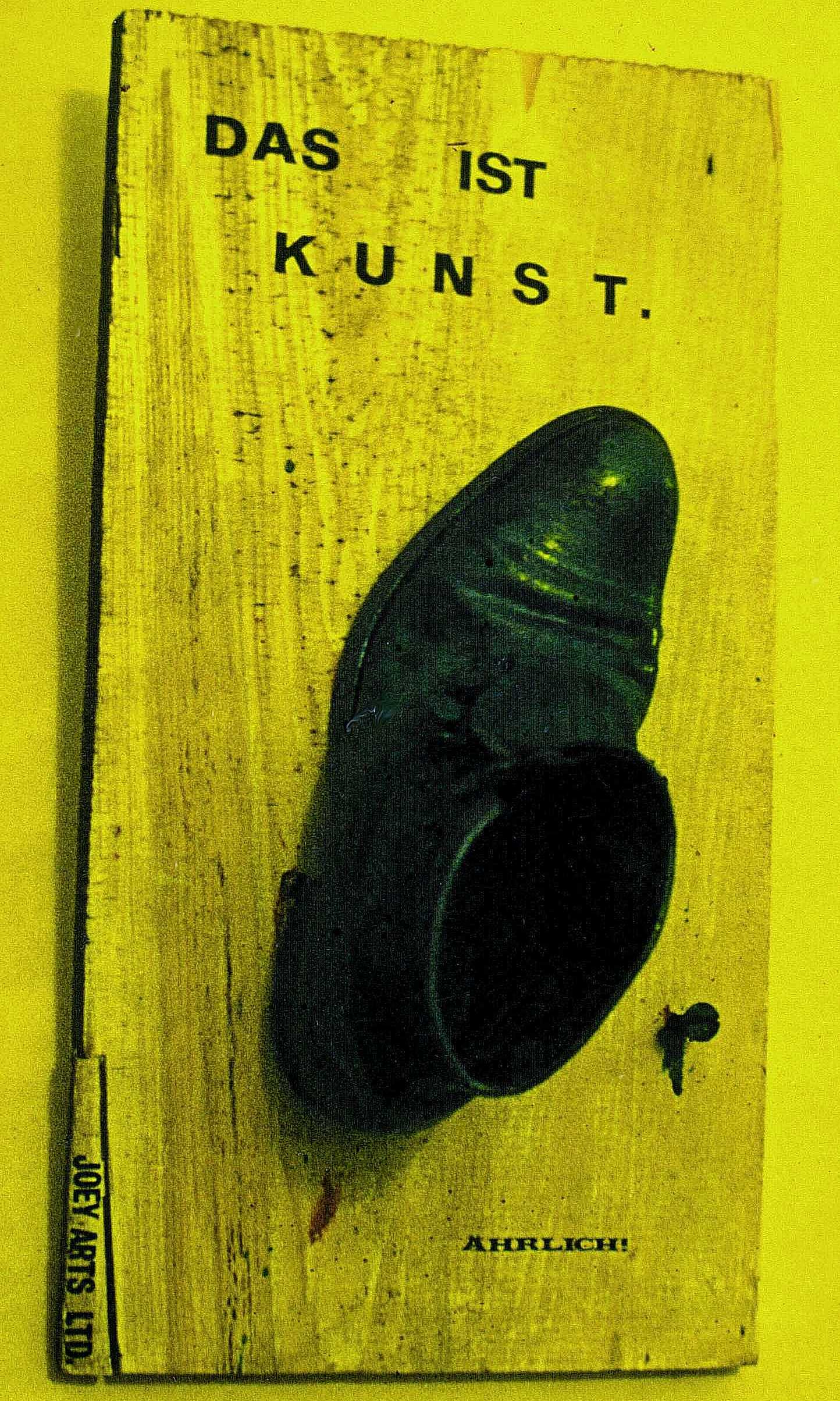 Nr. 5. 70x40x18 cm (28x16x8"), Assemblage · 01.11.1968